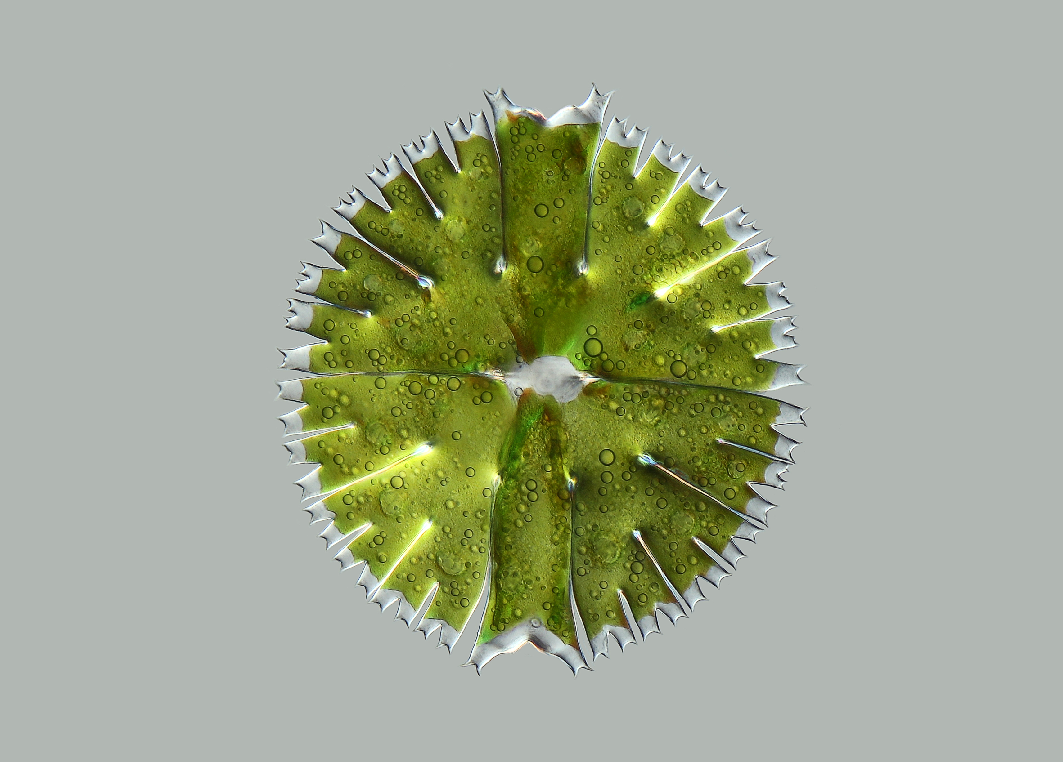 Desmidia microalga Micrasterias rotata. Light microscopy.